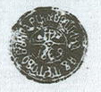 Bulgarian church seal in Tetovo